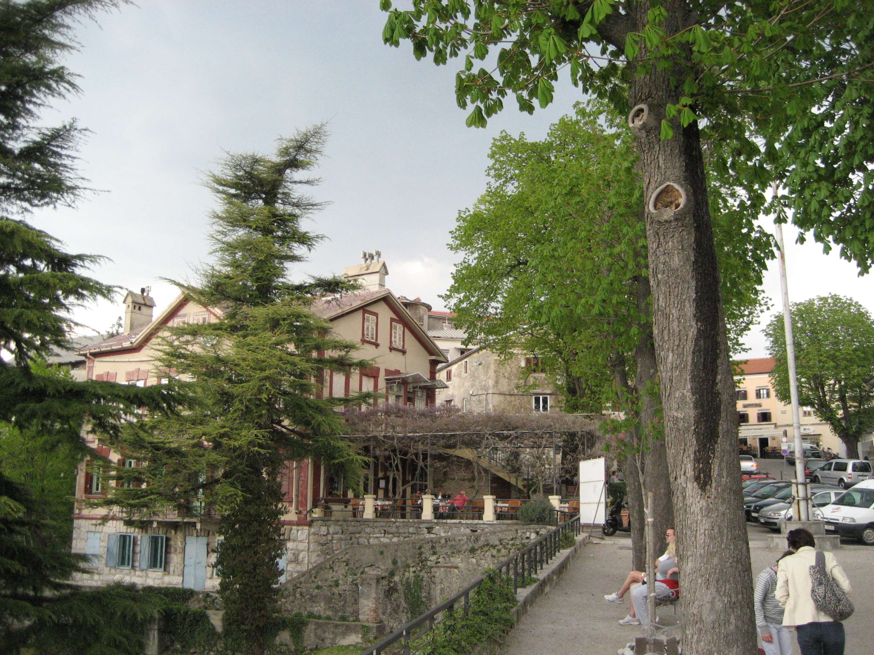 Kastav, Croatia